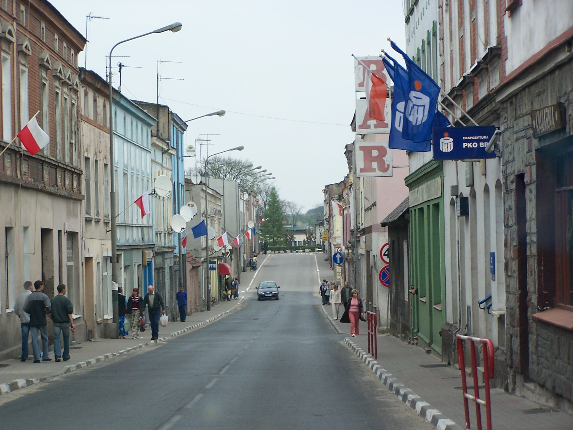 Więcbork, main street, city market